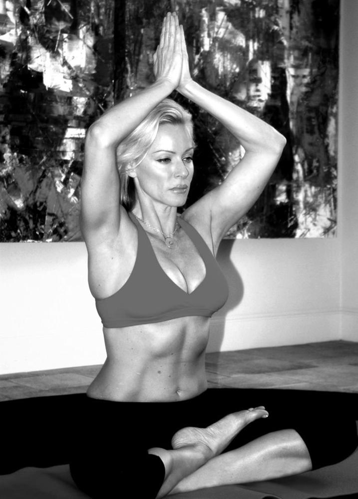 Chrystal Rae Almeida